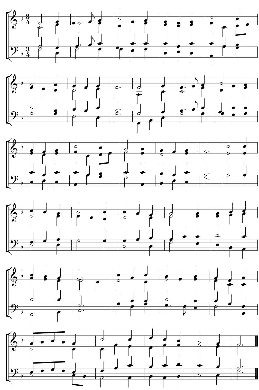 Music of the tune Hyfrydol